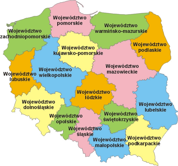 Polish Voivodship as on January 1st, 2006. By User:Aotearoa